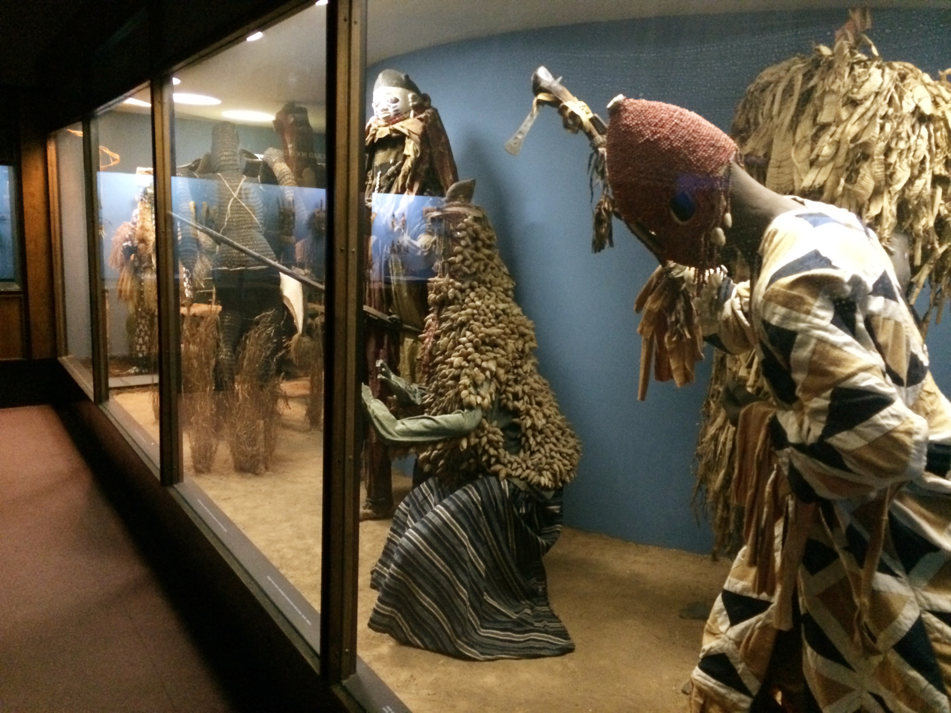 A collection of African spiritual costumes in the American Museum of Natural History